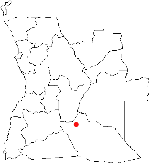 Menongue, Angola Location Map; created with the GIMP. Made by User:Acntx.